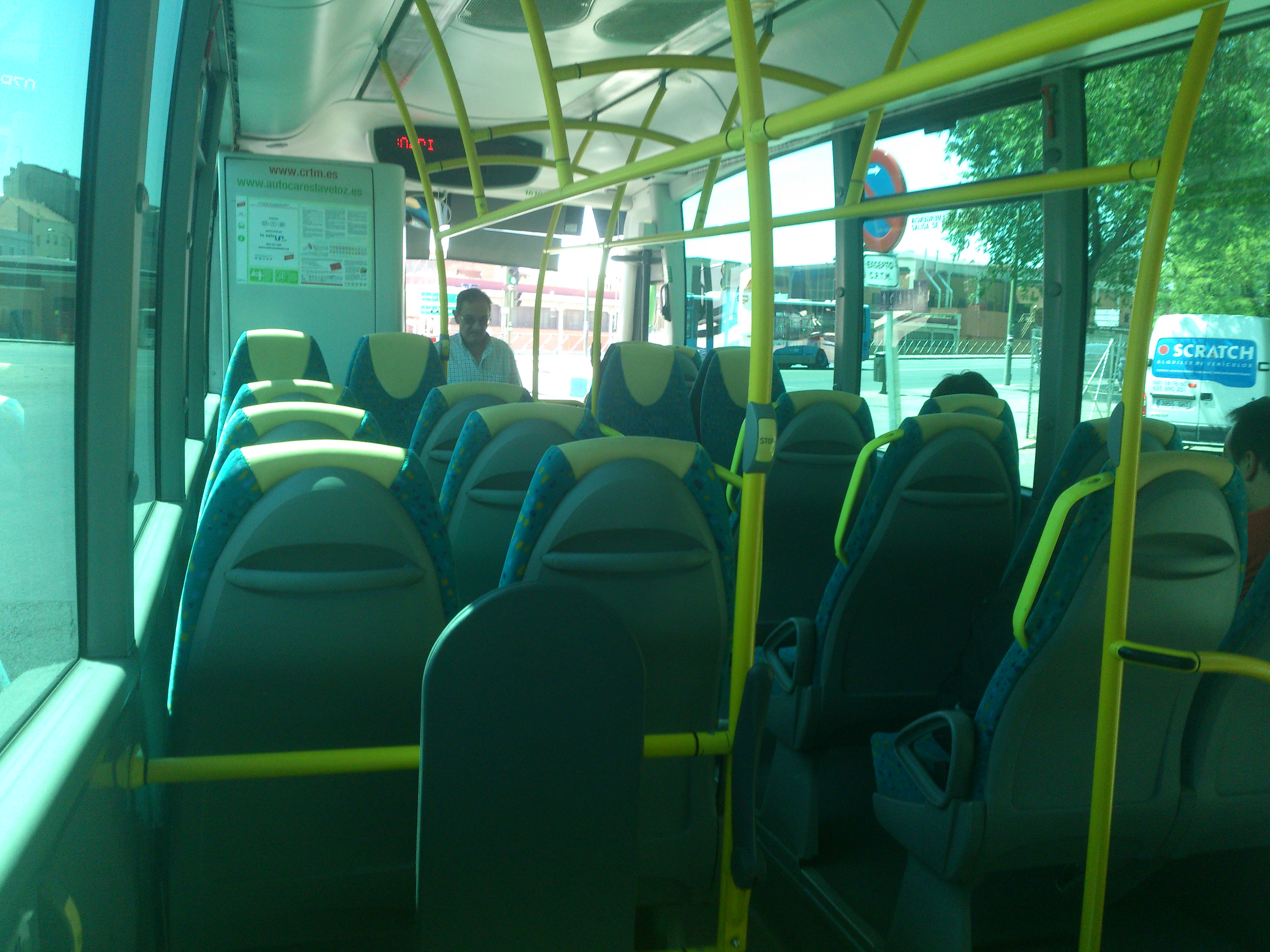 Interior de un bus de la L411 getafe Madrid.